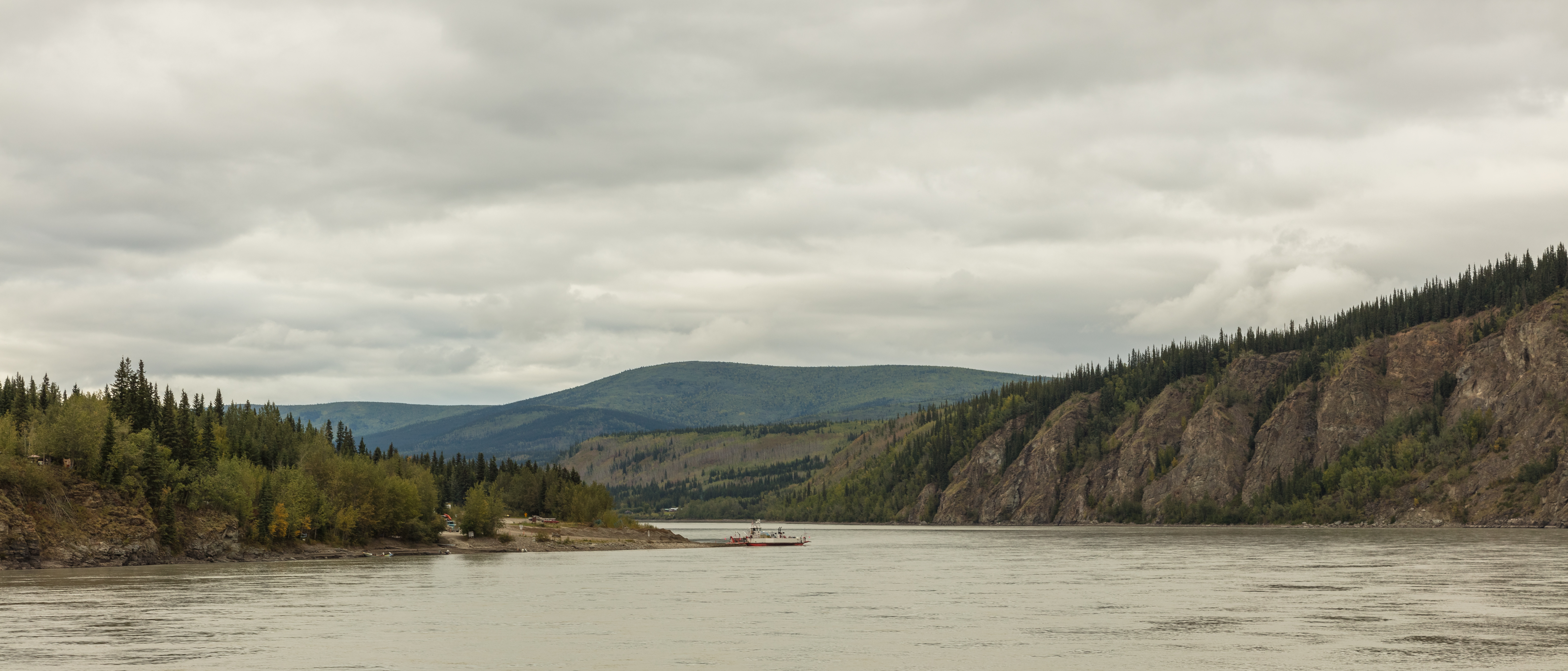 Yukon River from Dawson City, Yukon, Canada